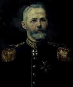 Painting of Oscar Silverstolpe as regimental commander of Gotland Infantry Regiment (I 27).